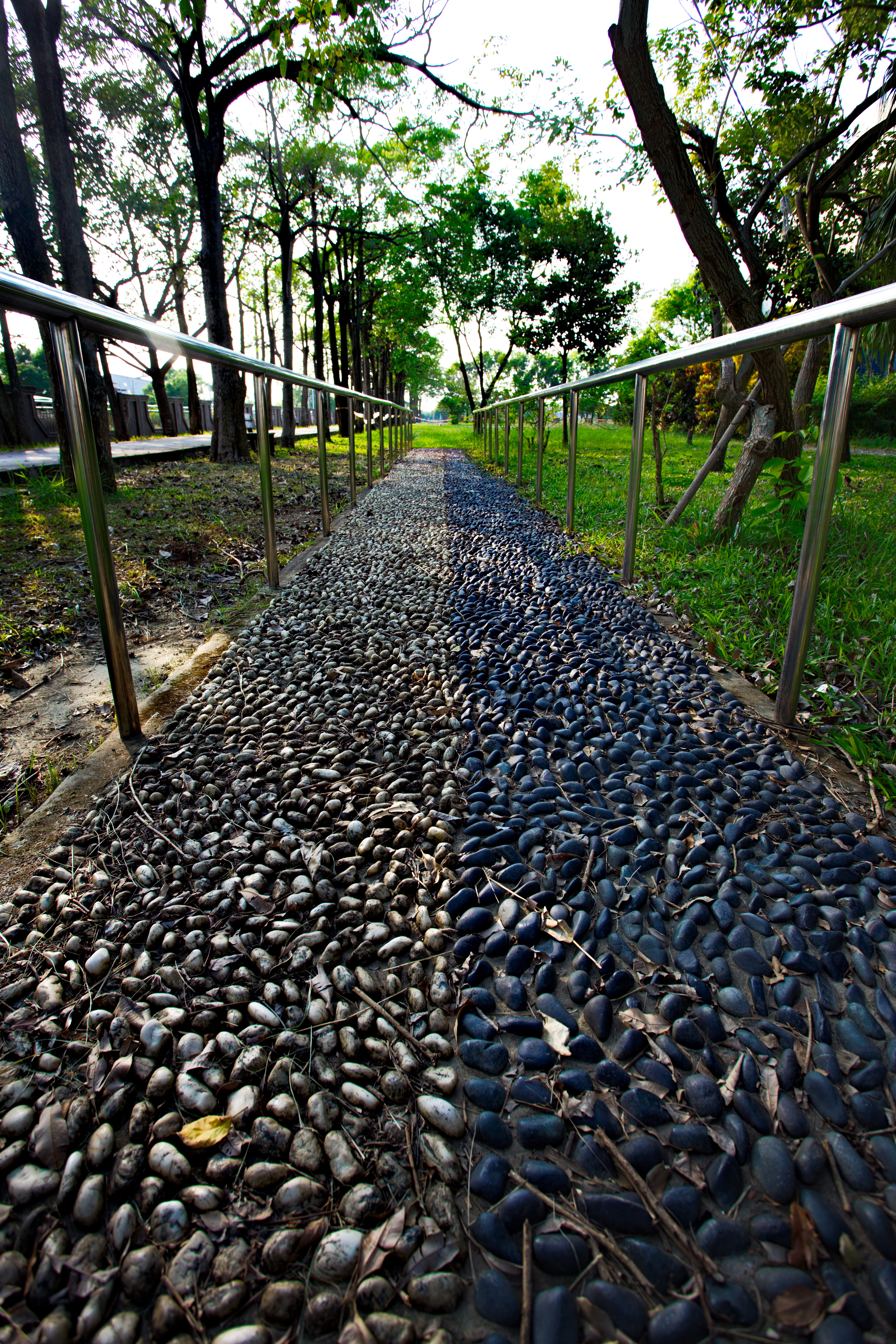 Reflexology footpath (walking path) in a park (Dalin, Taiwan)